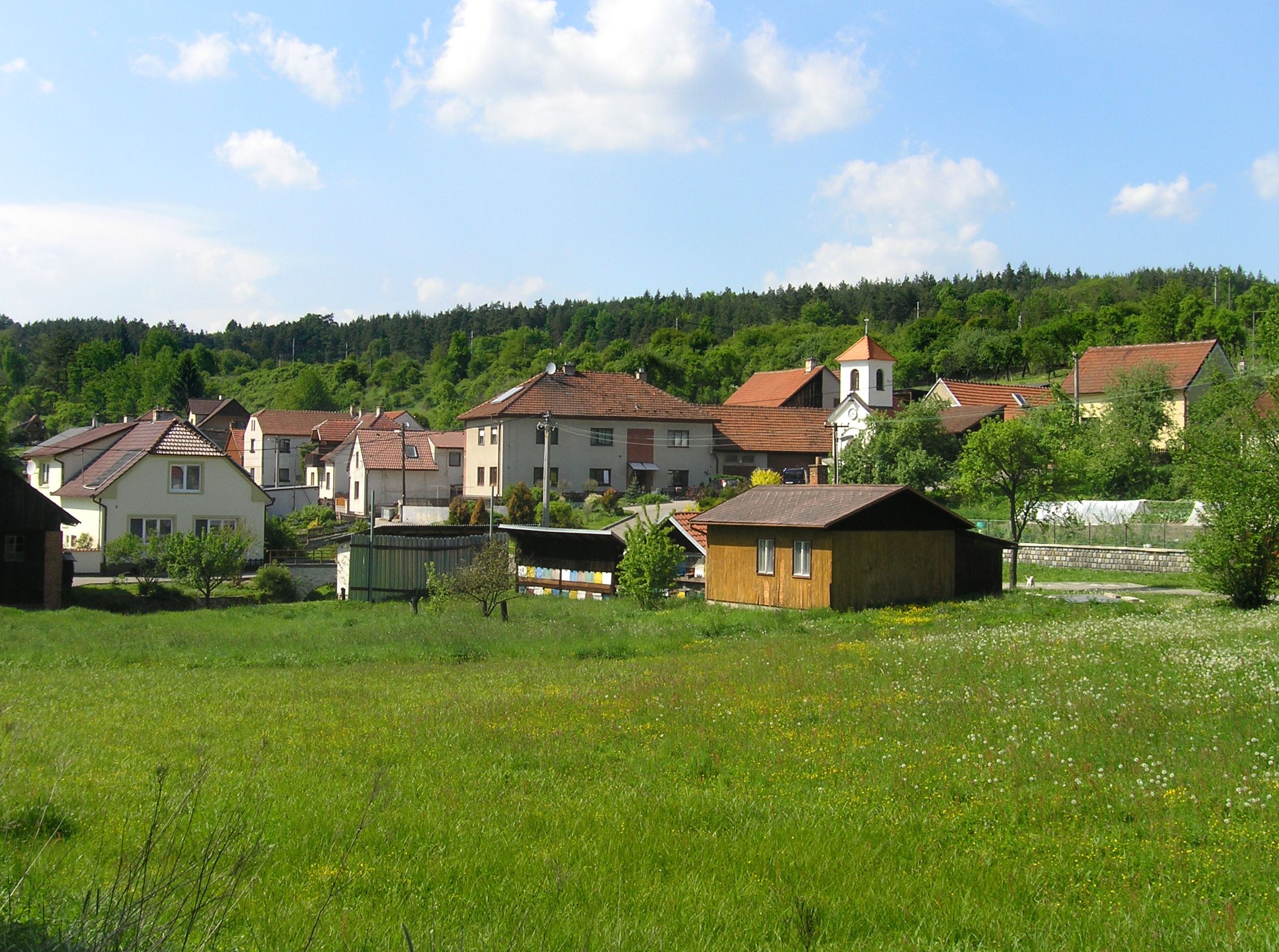 South view of Řikonín village, Czech Republic